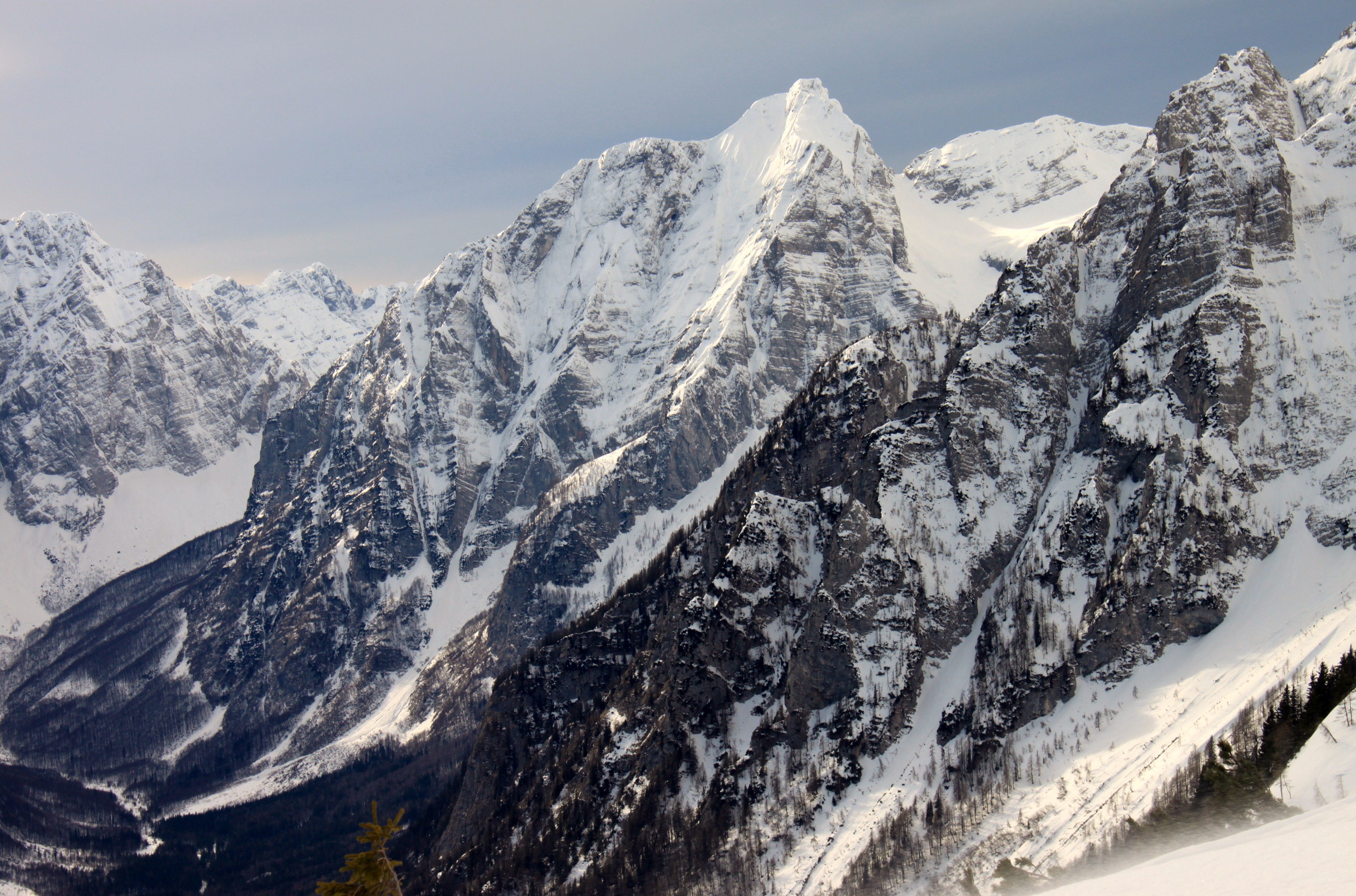 Winter view of Stenar, on the Vrata valley left bank.